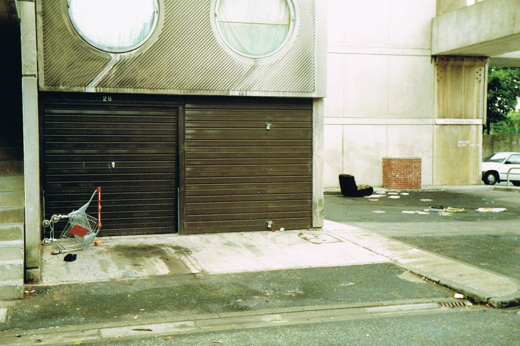 Photo of Southgate Estate in Runcorn, Cheshire, UK, taken in August 1989